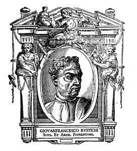 Illustratio from "Le Vite" by Giorgio Vasari, edition of 1568. For the artist portrayed see filename